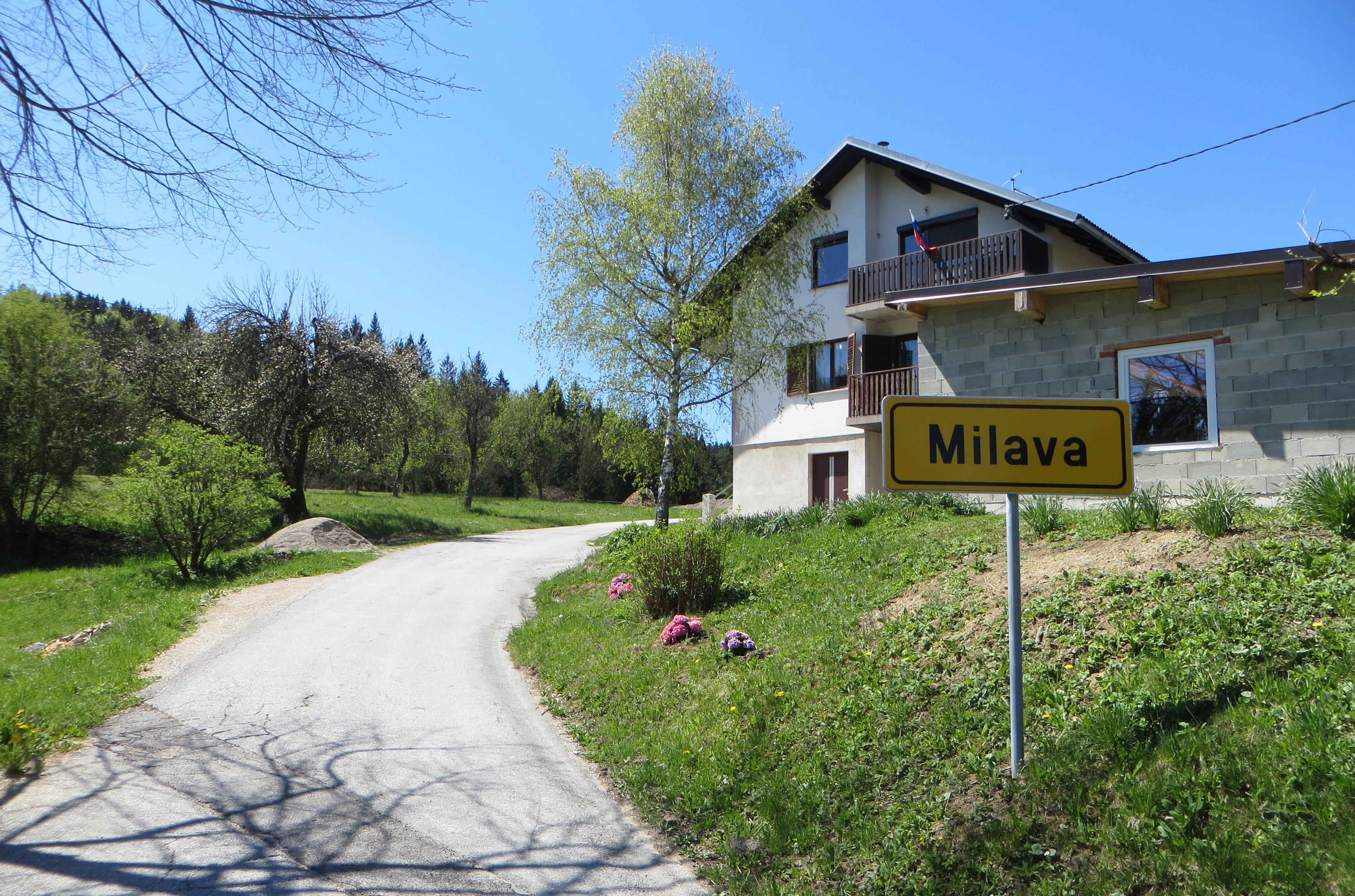 Milava, Municipality of Cerknica, Slovenia